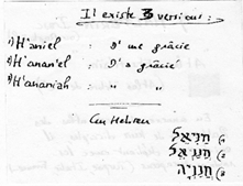 Hebrew version of name Graziadio